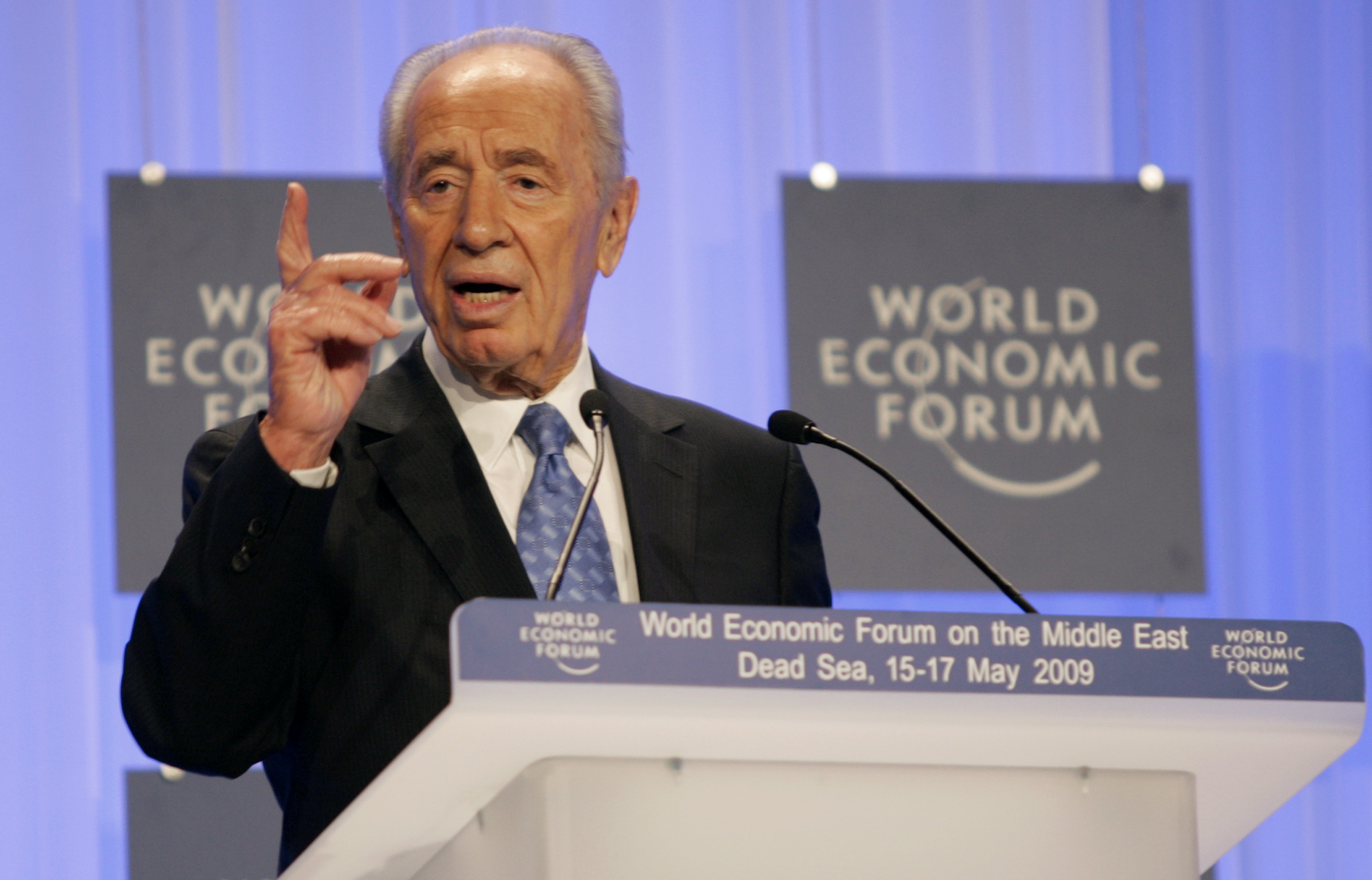 Shimon Peres, President of Israel